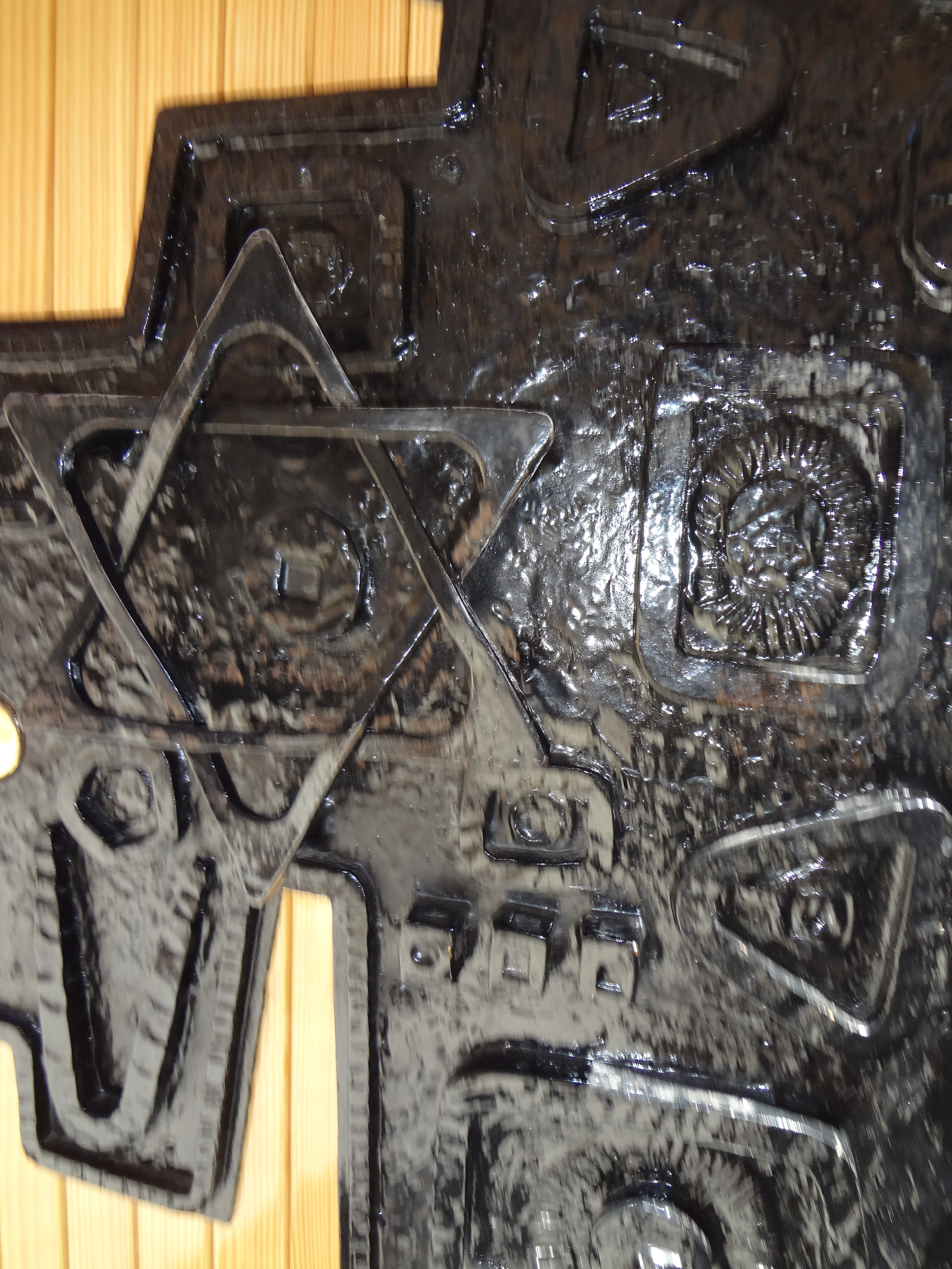 Star of David door handle at an entrance to a Jewish Synagogue in Madrid